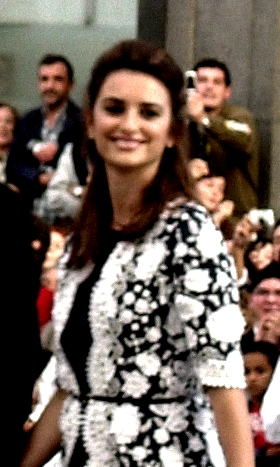 Spanish film actress Penélope Cruz depicted person: Penélope Cruz (age: 32.48)